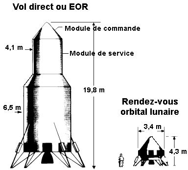 Apollo Program : Comparison of lunar lander size between Direct Landing mode and Lunar Orbiting Rendezvous (LOR)